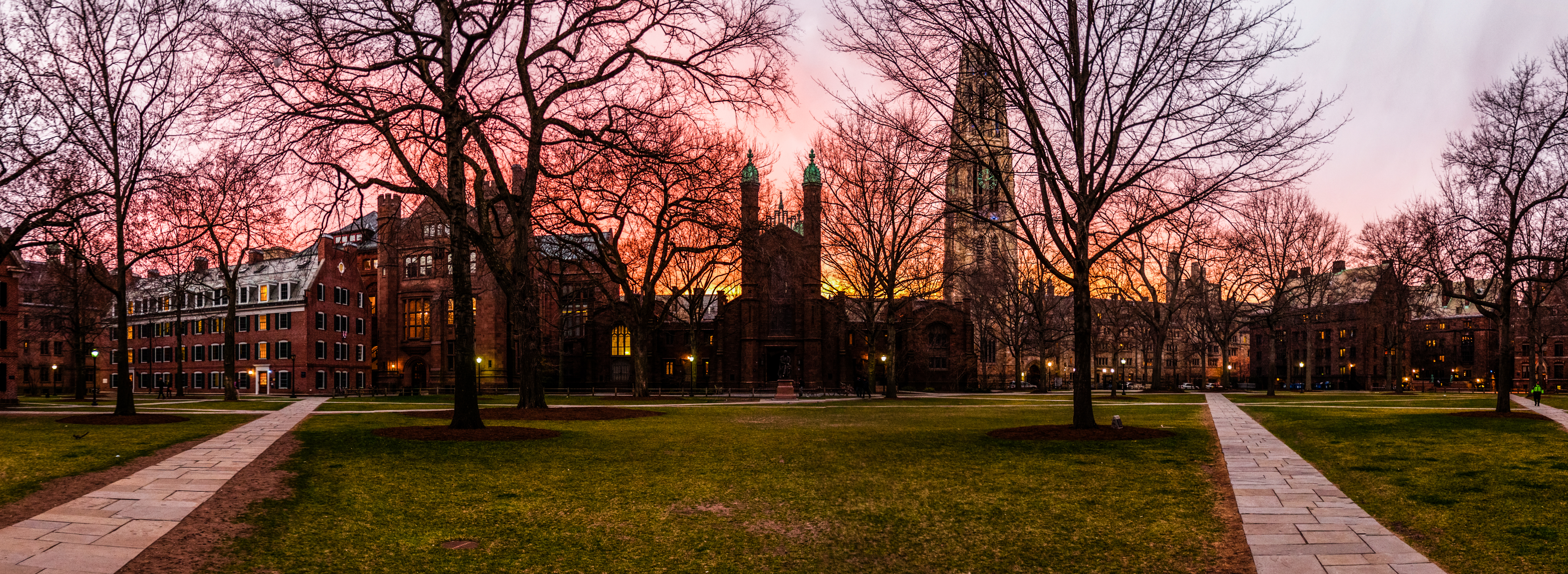 Yale's Old Campus at dusk.